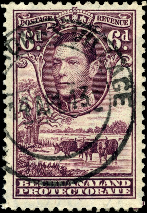 Bechuanaland Protectorate 6-pence stamp of 1938. Used at "(Gaber)one's Village", later Gaborone.